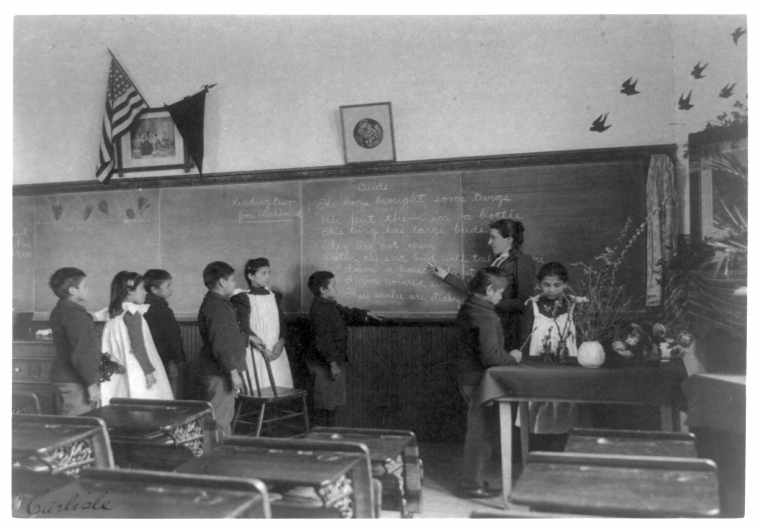 Elementary school class of Indian students with botanical specimens at United States Indian School, Carlisle, Pennsylvania